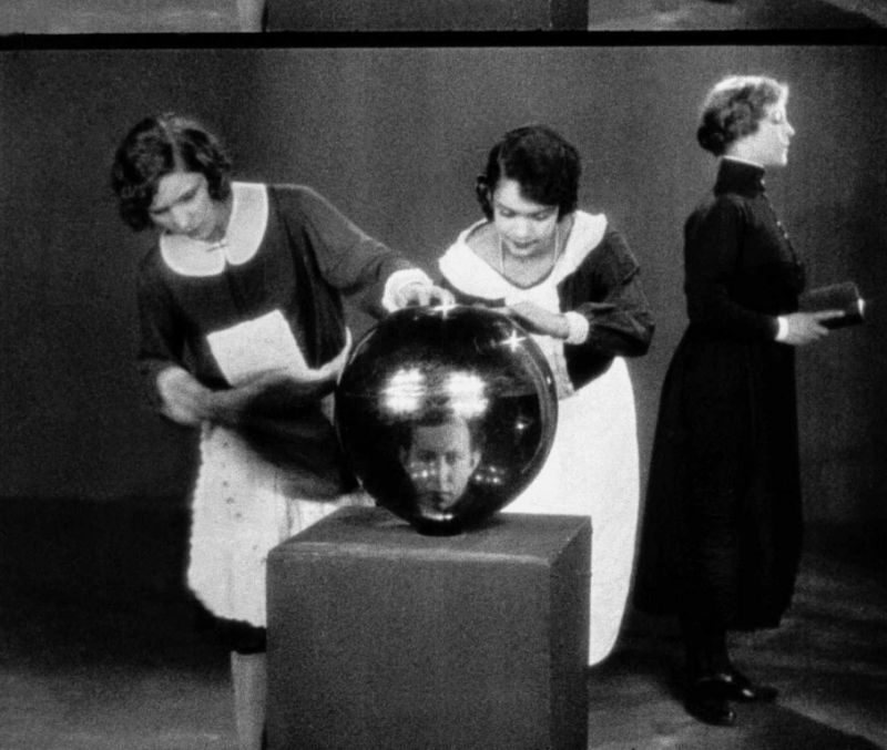 Frame from the movie The Seashell and the Clergyman (1928)